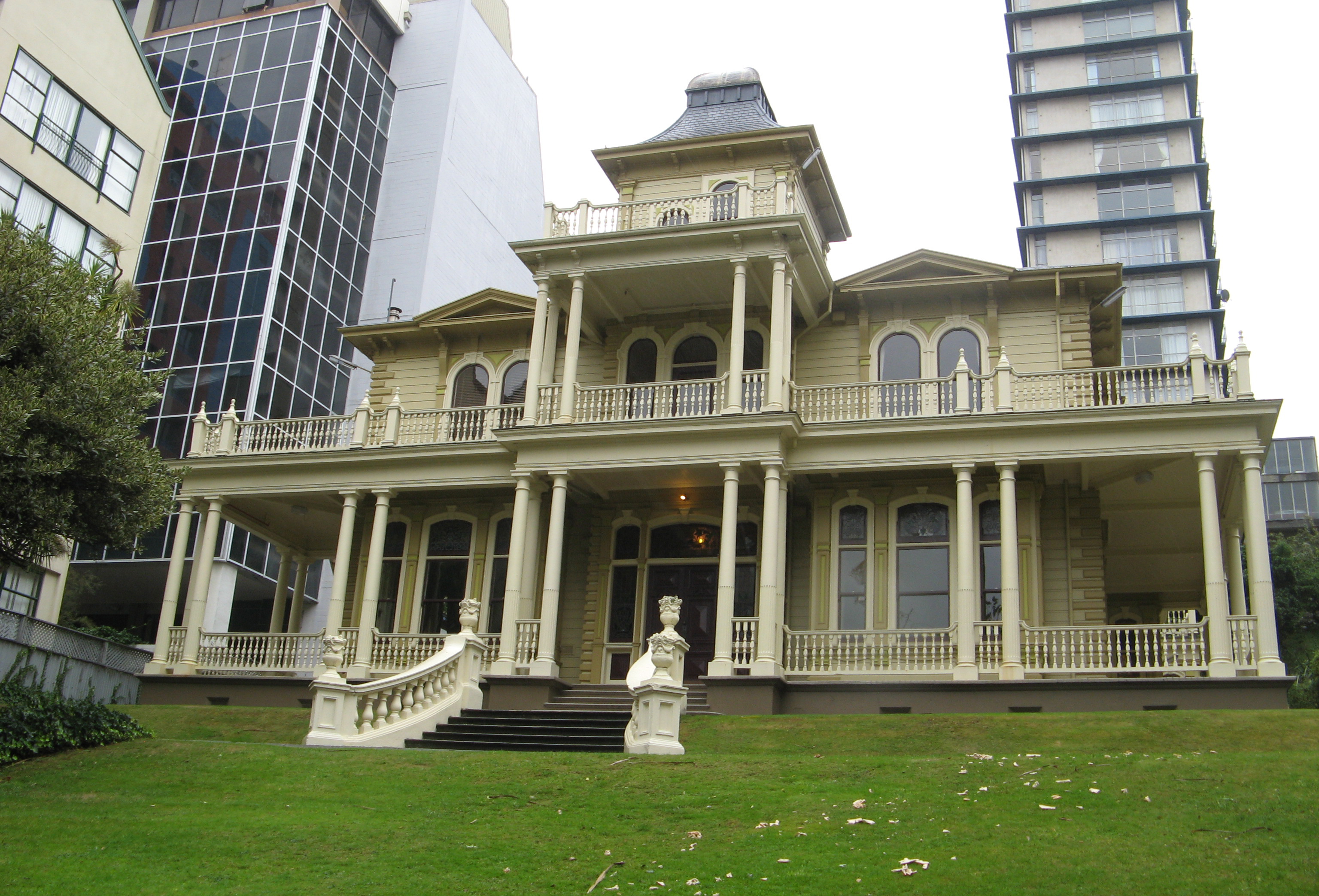 Antrim House, Wellington, New Zealand. New Zealand Historic Places Trust Register number: 208